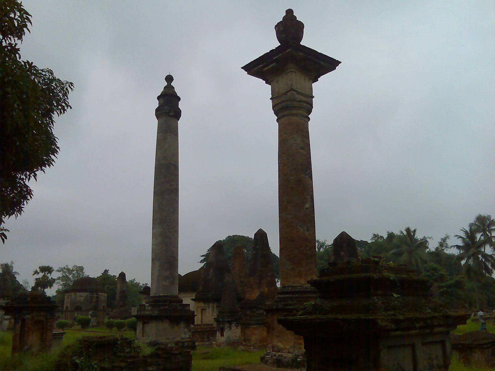 RESIDENCY CEMETERY OF BERHAMPORE,LATE 1600 AD.